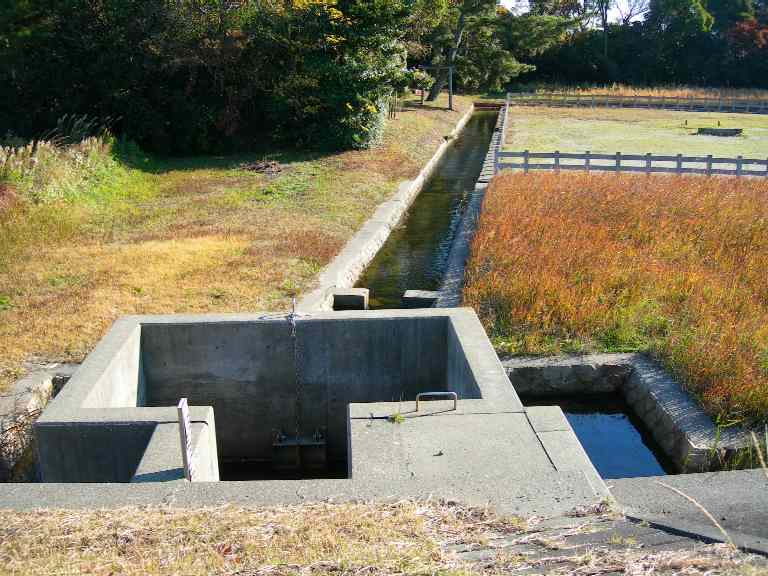 Mishiohama is a salt evaporation pond of Jingu, Futami-cho, Ise city Mie prefecture, Japan.